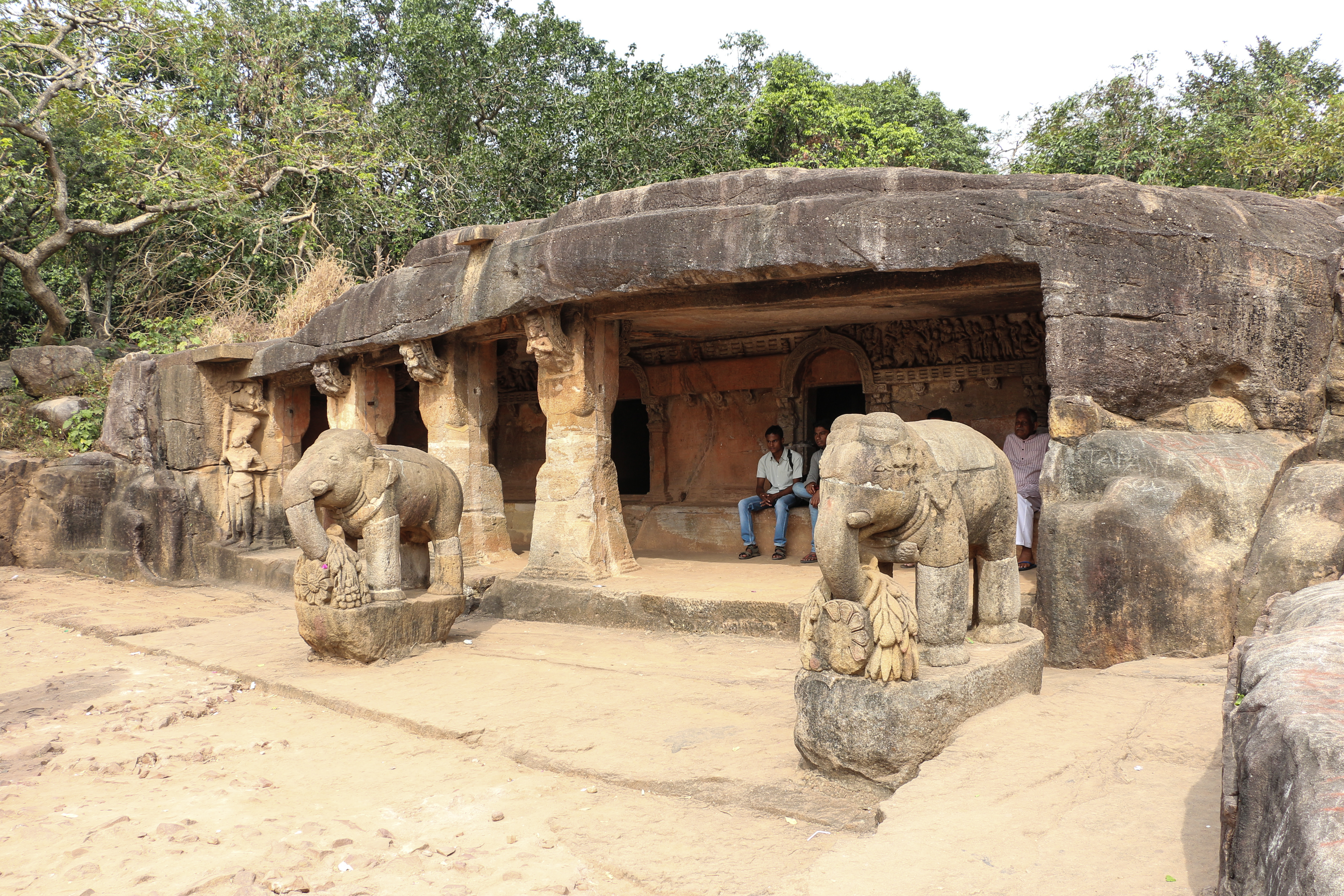 Ganesha Gumpha, Udayagiri Caves, near Bhubaneswar, India